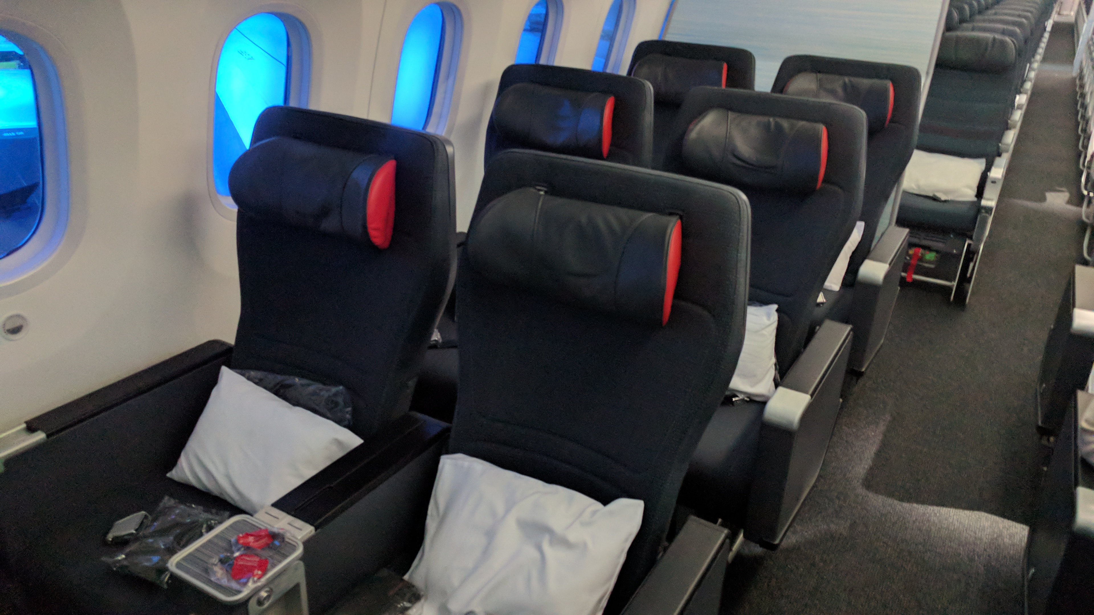 Air Canada 787-9 Premium Economy Classfrom C-FRSR AC12 TPE-YVR